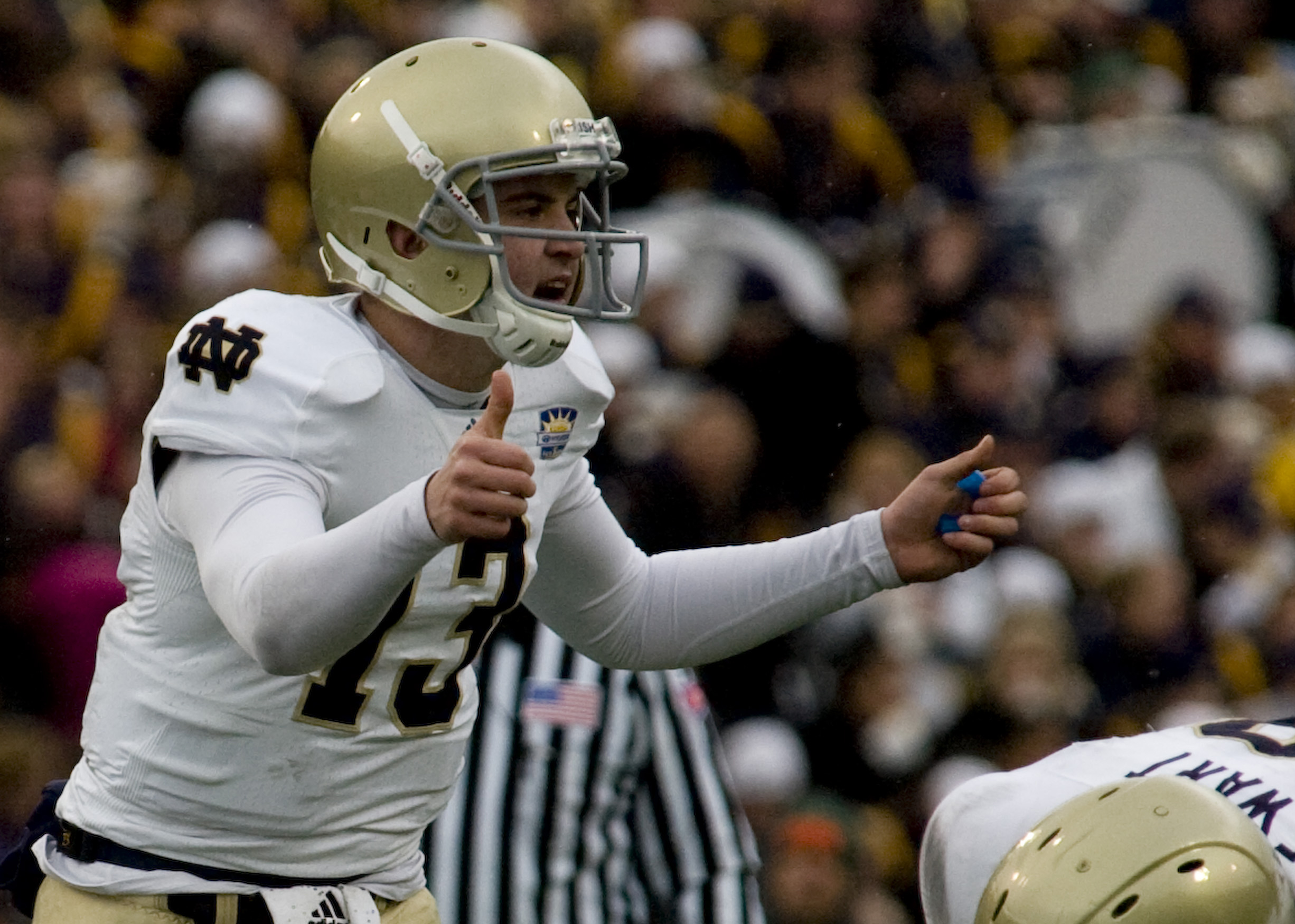 EL PASO, Texas (December 31, 2010) University of Notre Dame freshman quarterback Tommy Rees calls an audible at the 2010 Hyundai Sun Bowl in El Paso, Dec. 31. Rees (15-29, 201 yards, 2 TDs) and the Irish gave blue and gold Sun Bowl fans something to cheer about when they defeated the University of Miami Hurricanes, 33-17.